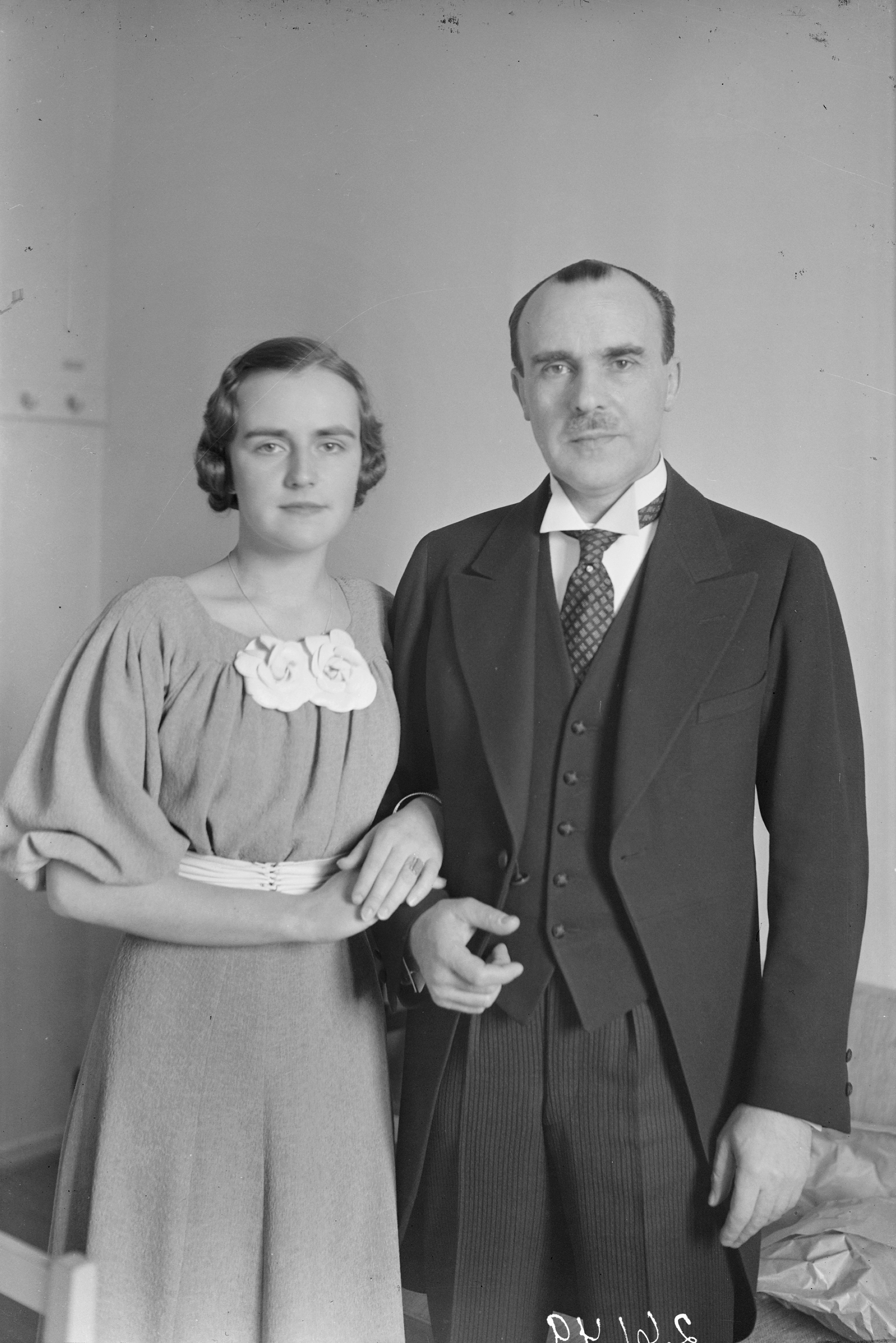 Photograph of the Finnish physician and professor Seth Wichmann (1885–1939) with his daughter Irma (1918–).